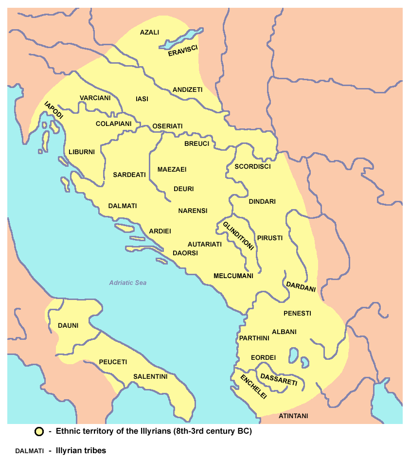 Ethnic territory of the Illyrians and Illyrian tribes (8th-3rd century BC).